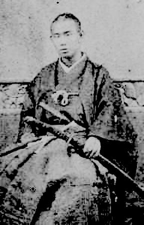 The photograph of Matsudaira Sadaaki.